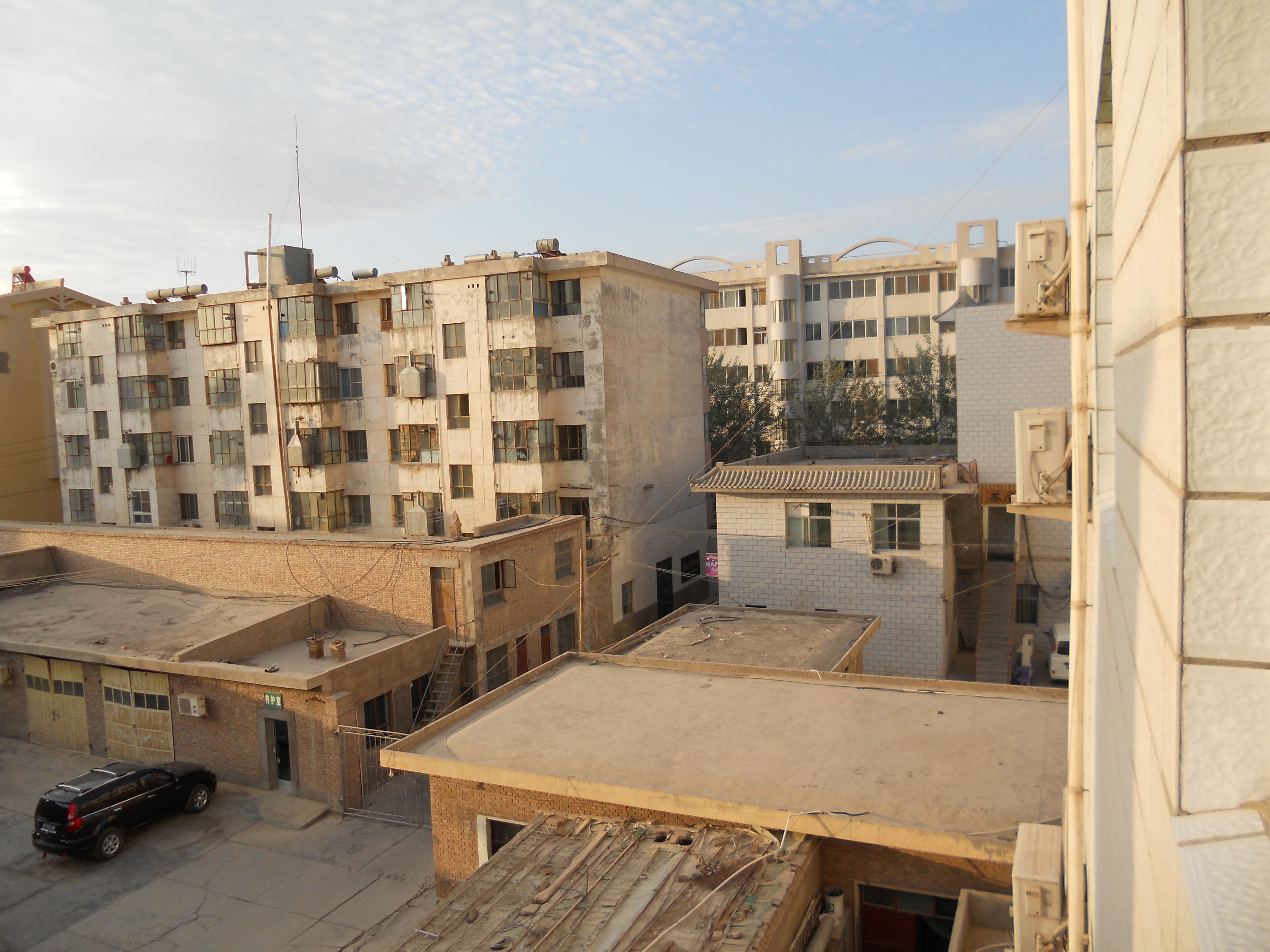 The view from my room at the Yang Guan Hotel, Dunhuang, Gansu, China, June 6, 2010